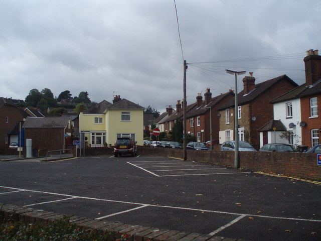 Car park between Grays Road and North Street, Farncombe Many a shopper would be glad to find such an empty car-park on a Saturday lunchtime! Photo taken 13:14